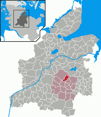 Locator maps of municipalities in Schleswig-Holstein - District Rendsburg-Eckernförde